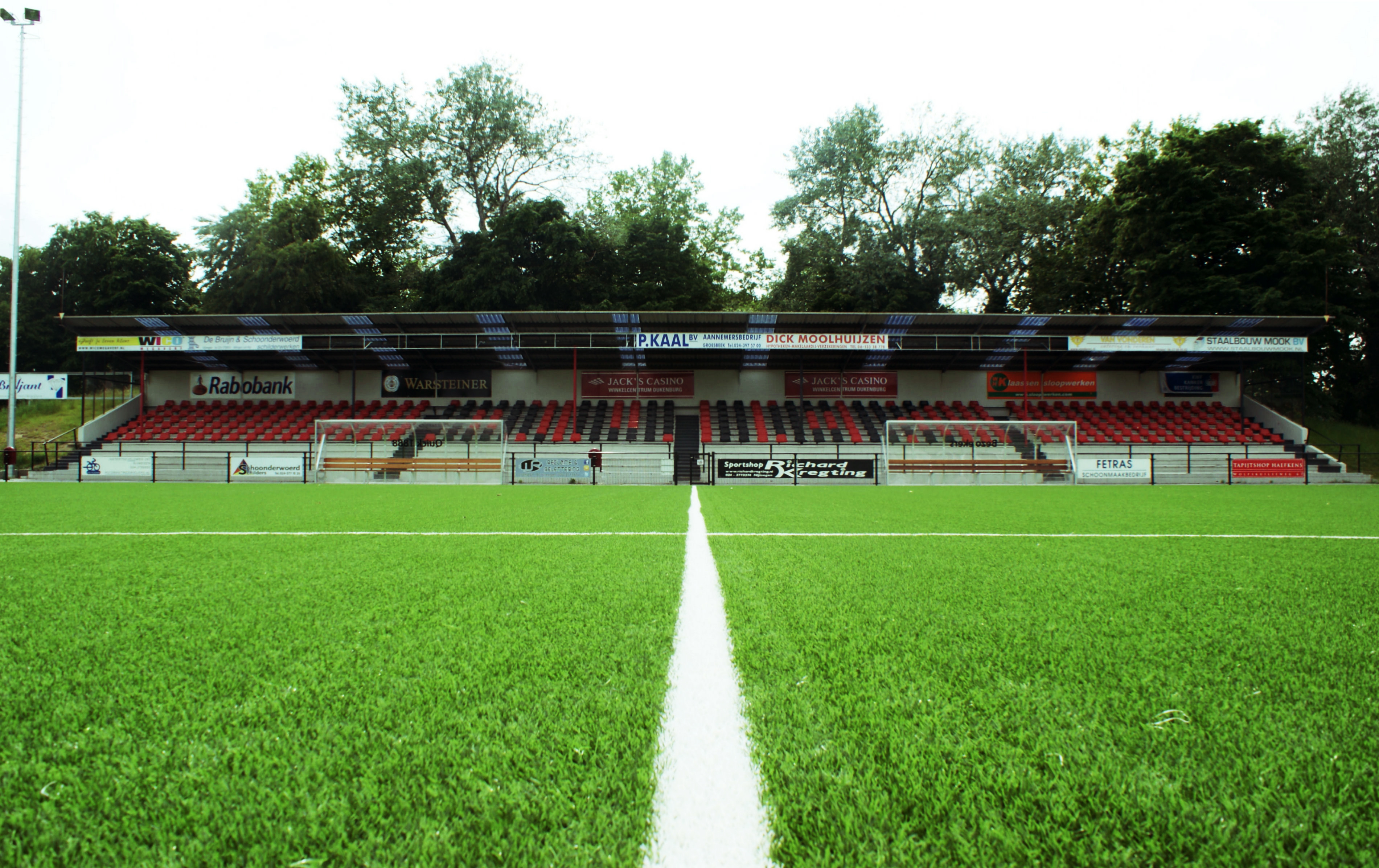 Sportpark De Dennen Hoofdtribune Quick 1888